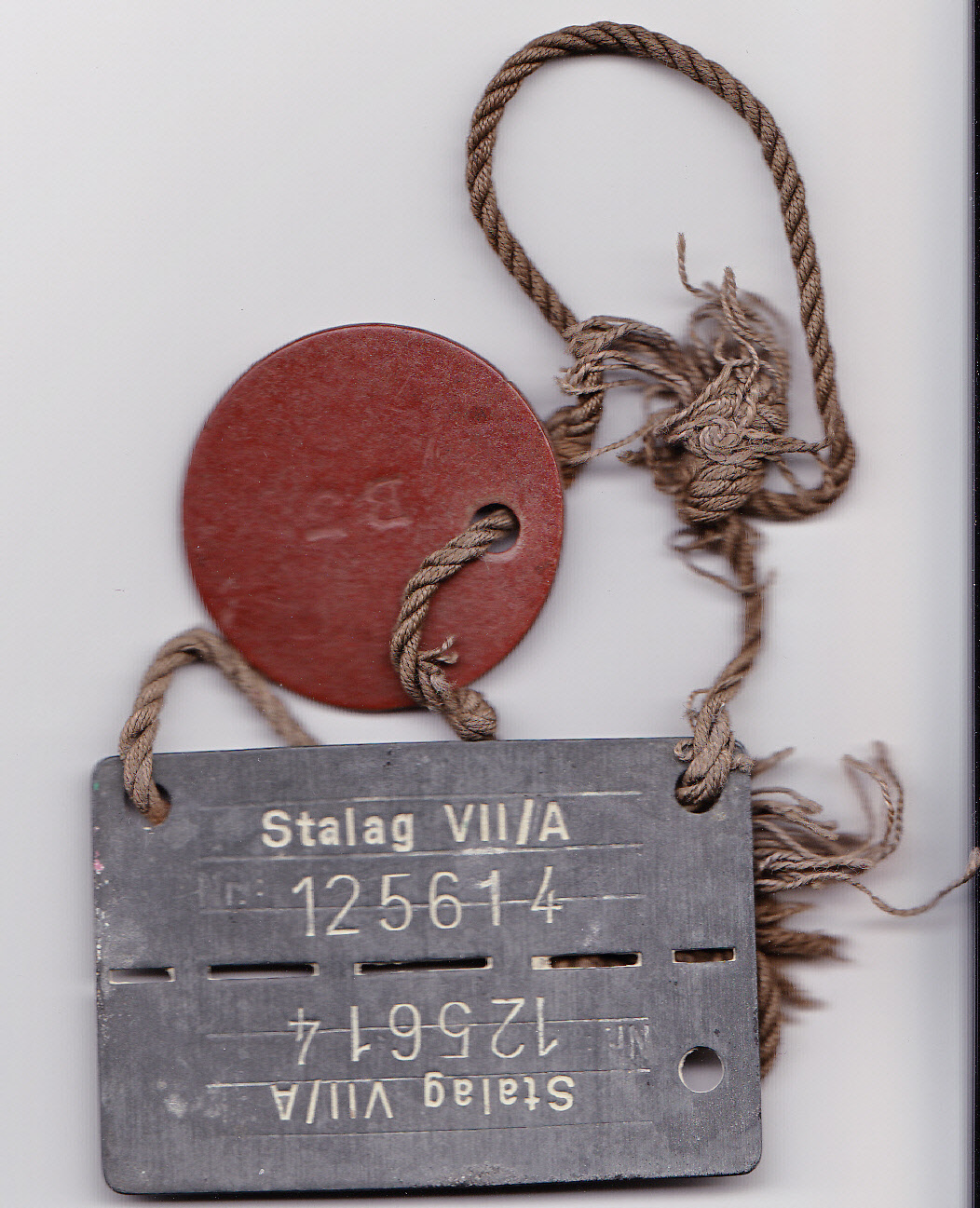 ID tag worn by a POW at Stalag VII/A, Moosburg, Germany, in 1943-44. The obverse of the round "dog tag" carries the wearer's name, initials and service number. (Scanned from the original item in my possession)